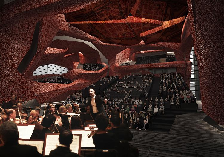 Wizualizacja sali koncertowej Centrum Kulturalno-Kongresowego Jordanki